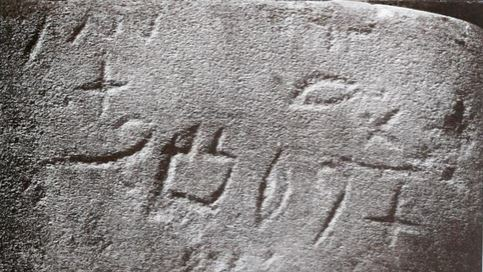 Serabit inscription found in Flinders Petrie's Research in Sinai